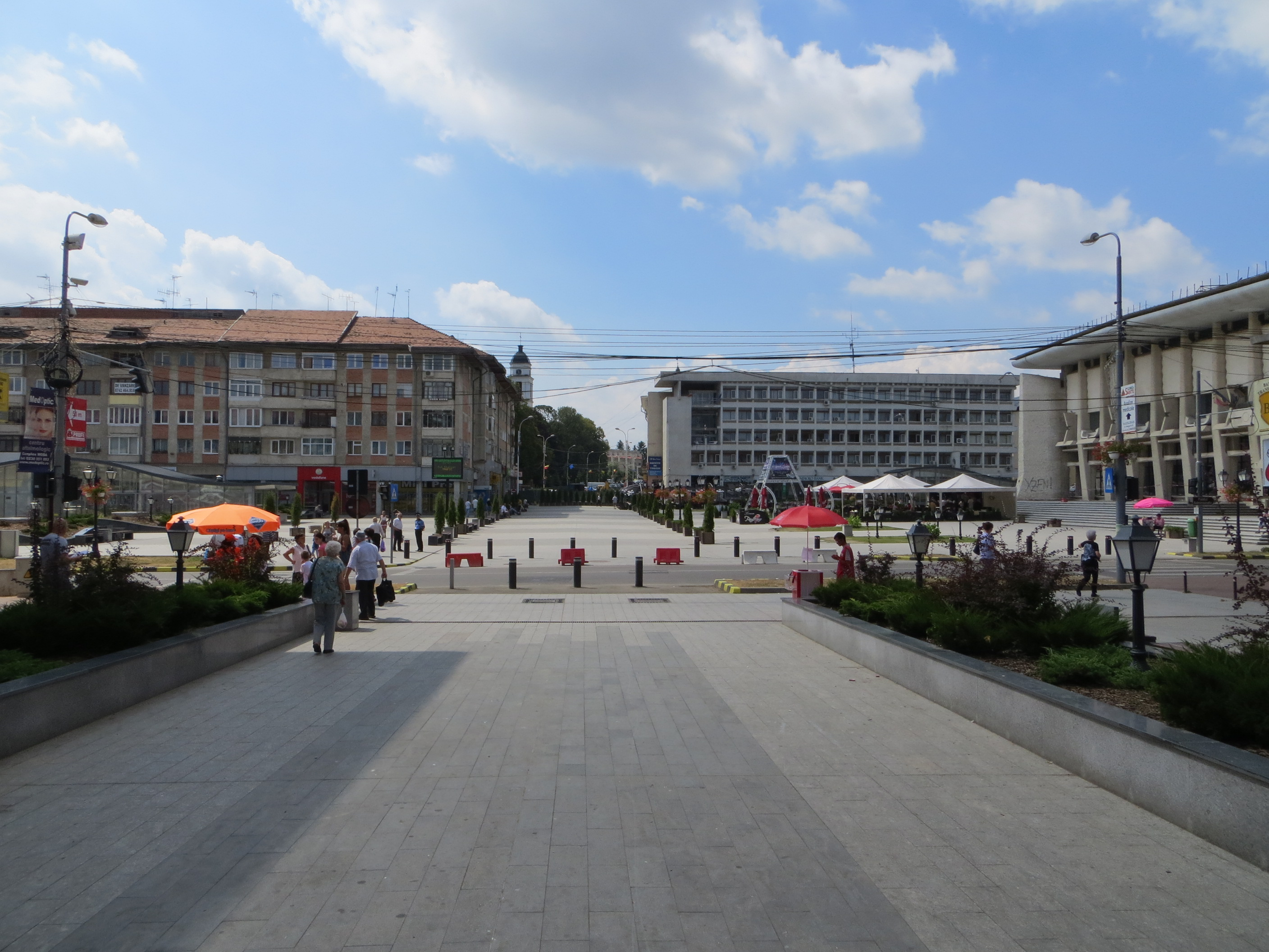 22 Decembrie Square in Suceava.